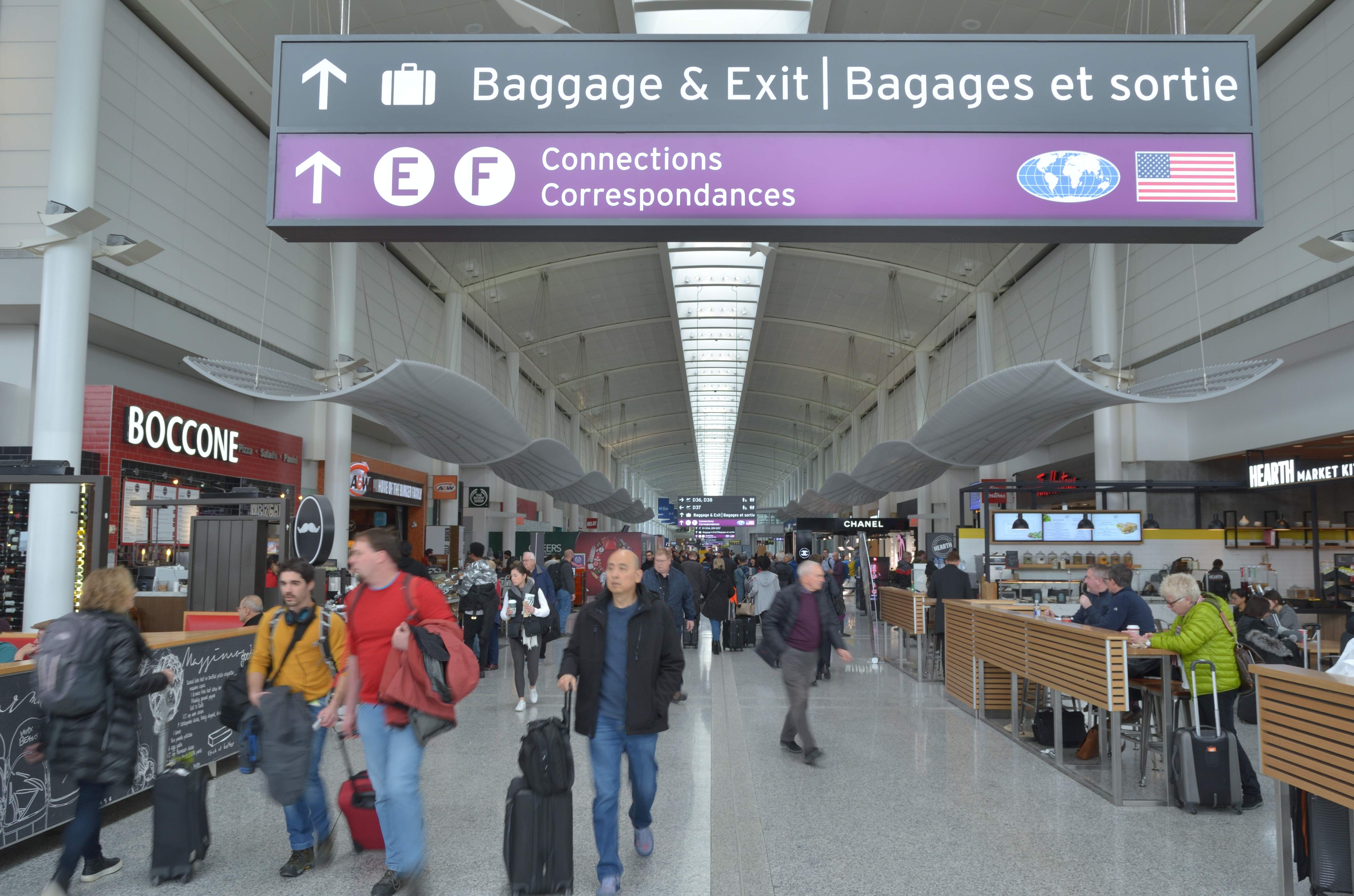 Travelers at Toronto Airport Terminal 1